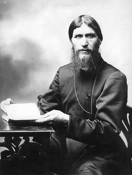 Grigori Rasputin.